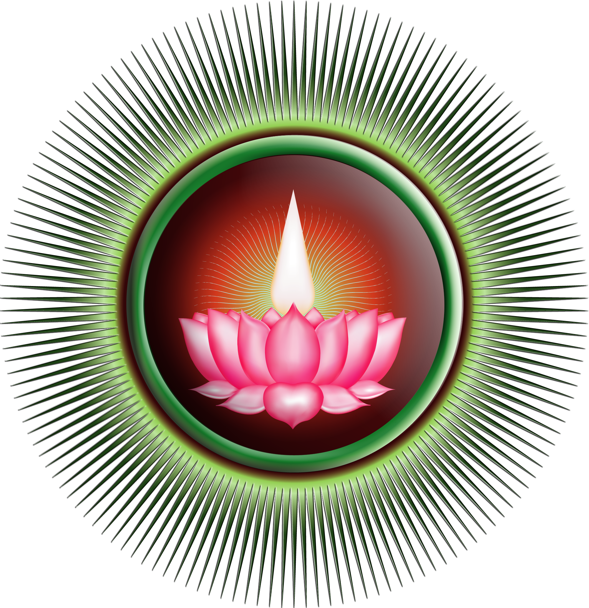 This is the Symbol of Ayyavazhi